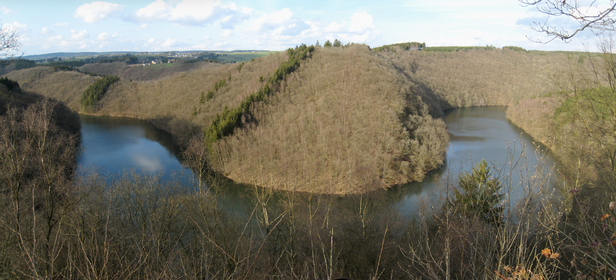 Panorama of the lac de Nisramont in the Belgian Ardennes, stitched from two individual photos.